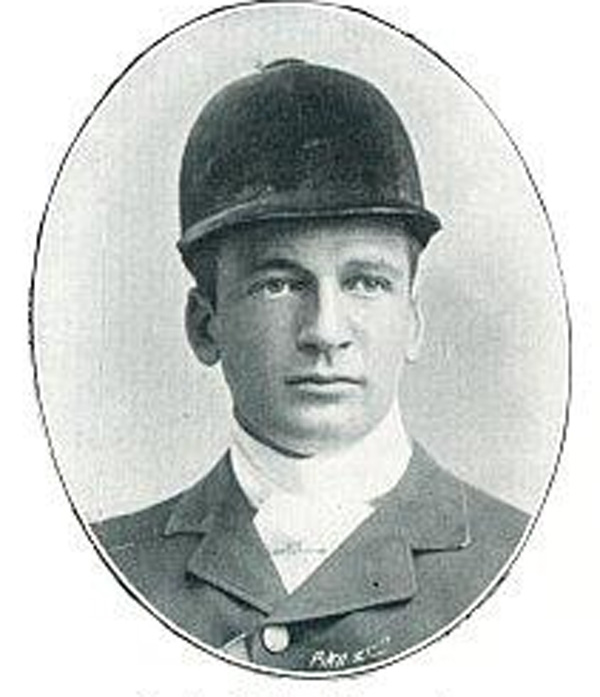 Captain Peter Ormrod former owner of Wyresdale Park circa 1900